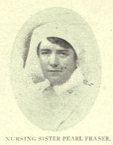 Margaret_Marjory_(Pearl)_Fraser famous for service in the sinking of the Llandovery Castle, WW1